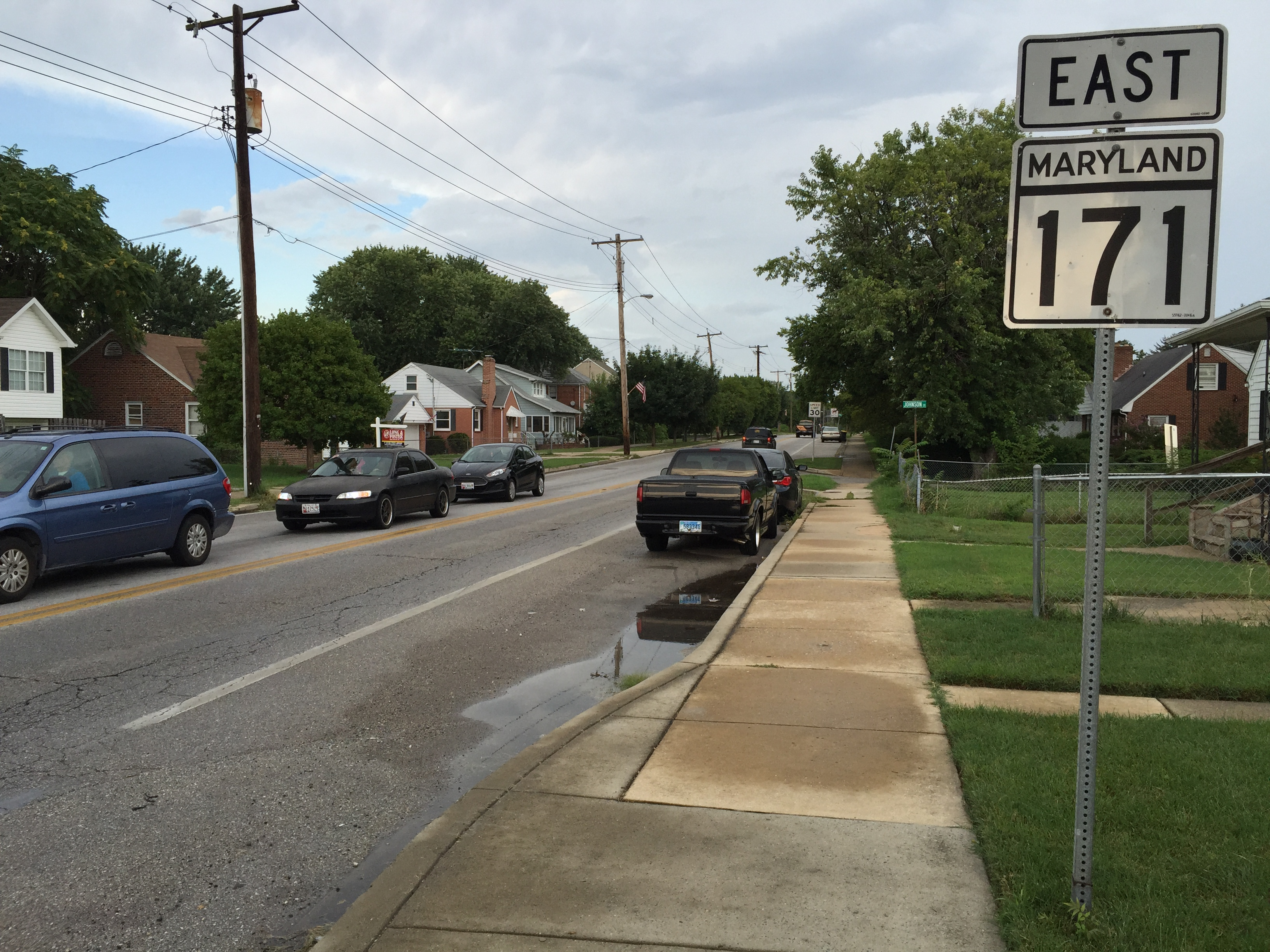 View east along Maryland State Route 171 (Church Street) at Maryland State Route 2 (Governor Ritchie Highway) in Brooklyn Park, Anne Arundel County, Maryland